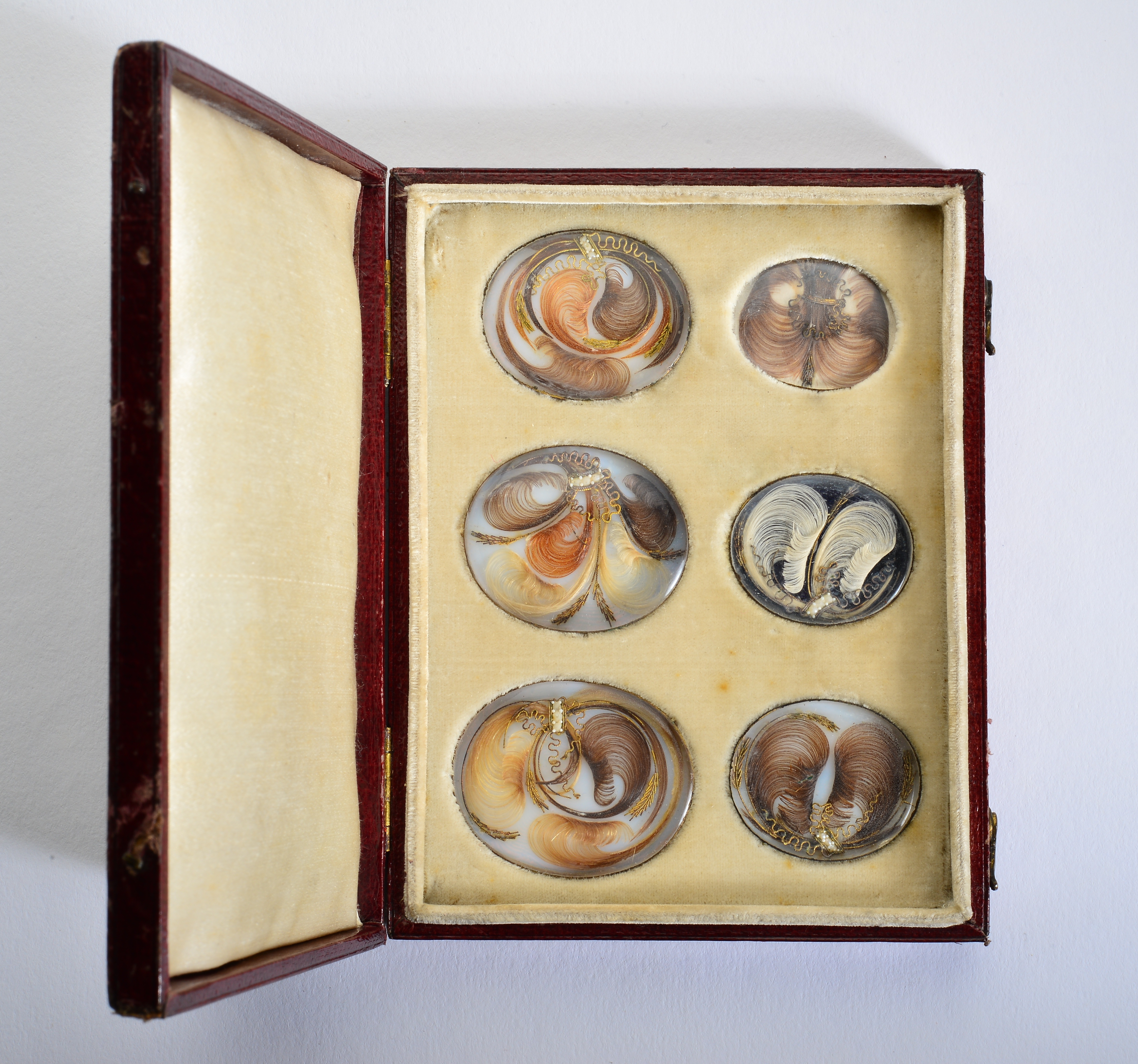 red leather sample box case, which opens to reveal six glazed reserves, each with a different example of complex hairwork. The rolled hair designs also contain seed pearls.Memorial jewellery of this style became popular during the early nineteenth century and continued on into the century.Although people had kept locks of hair from deceased family members and friends since the renaissance period it was not until the 19th century that whole jewellery created out such hair became part of a wider Victorian fashion of remembrance and sentimentality towards those that had passed on. The underside of the box has some original labels, detailing the number, name and price of each design. 122mm high x 94mm wide (closed) Inventory number HARGM 5018 Caption souces (Helen Ritchie, A Passionate Collector:MRS HULL GRUNDY AND JEWELLERY FROM THE HARROGATE COLLECTION, 2014 ISBN 978-1-898408-14-7 )